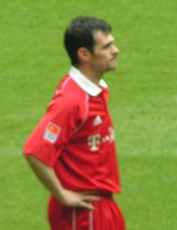 Willy Sagnol (FC Bayern) against Arminia Bielefeld